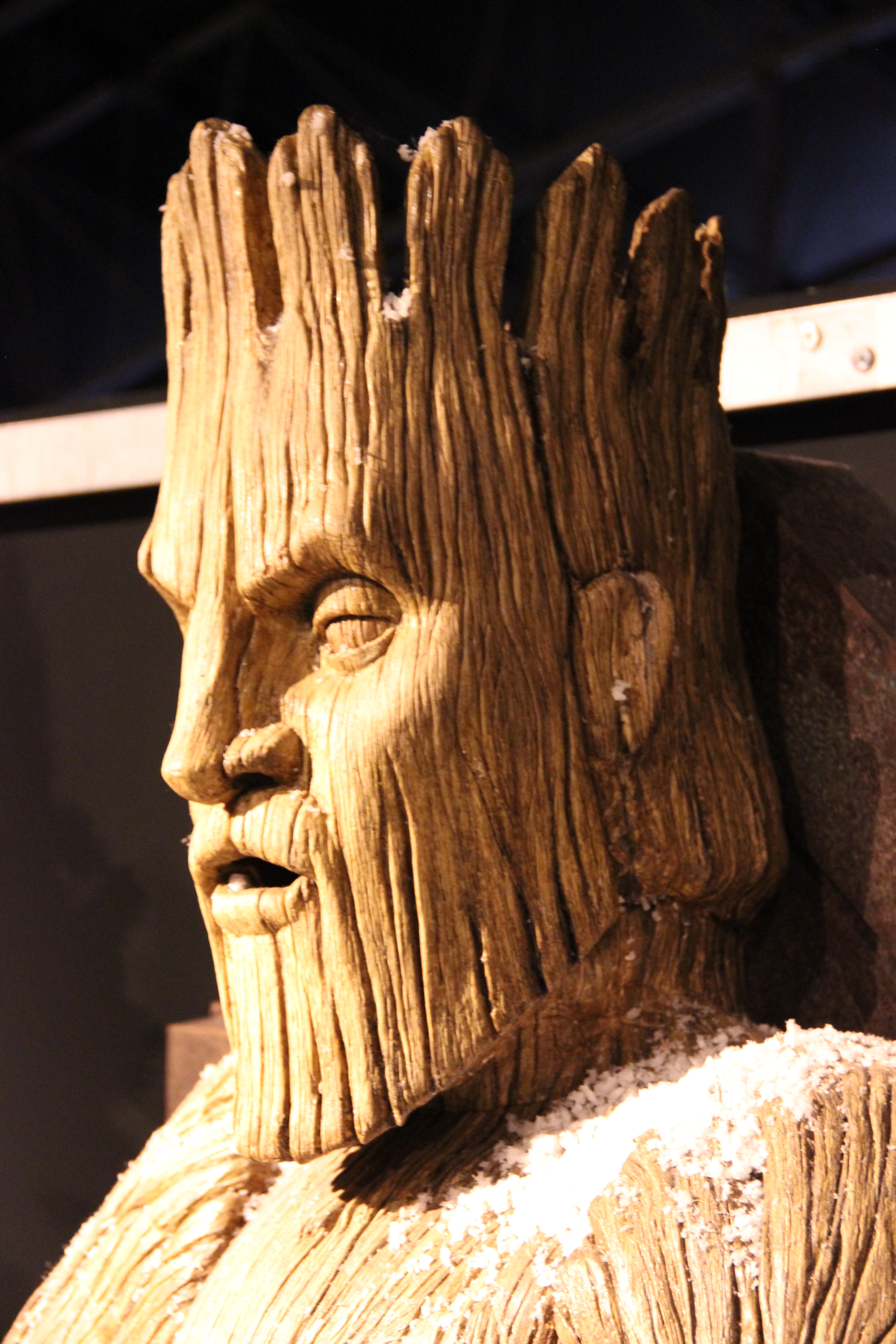 Doctor Who Experience Doctor Who Experience